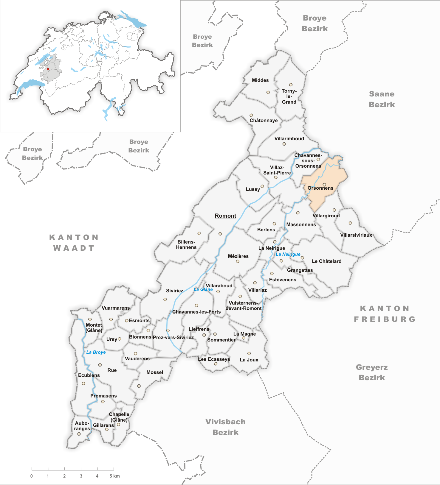 Municipality Orsonnens Artist: Tschubby